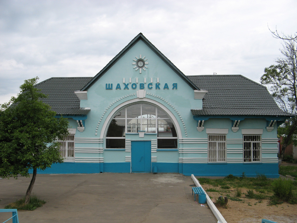 Railway station Shakhovskaya, Moscow region